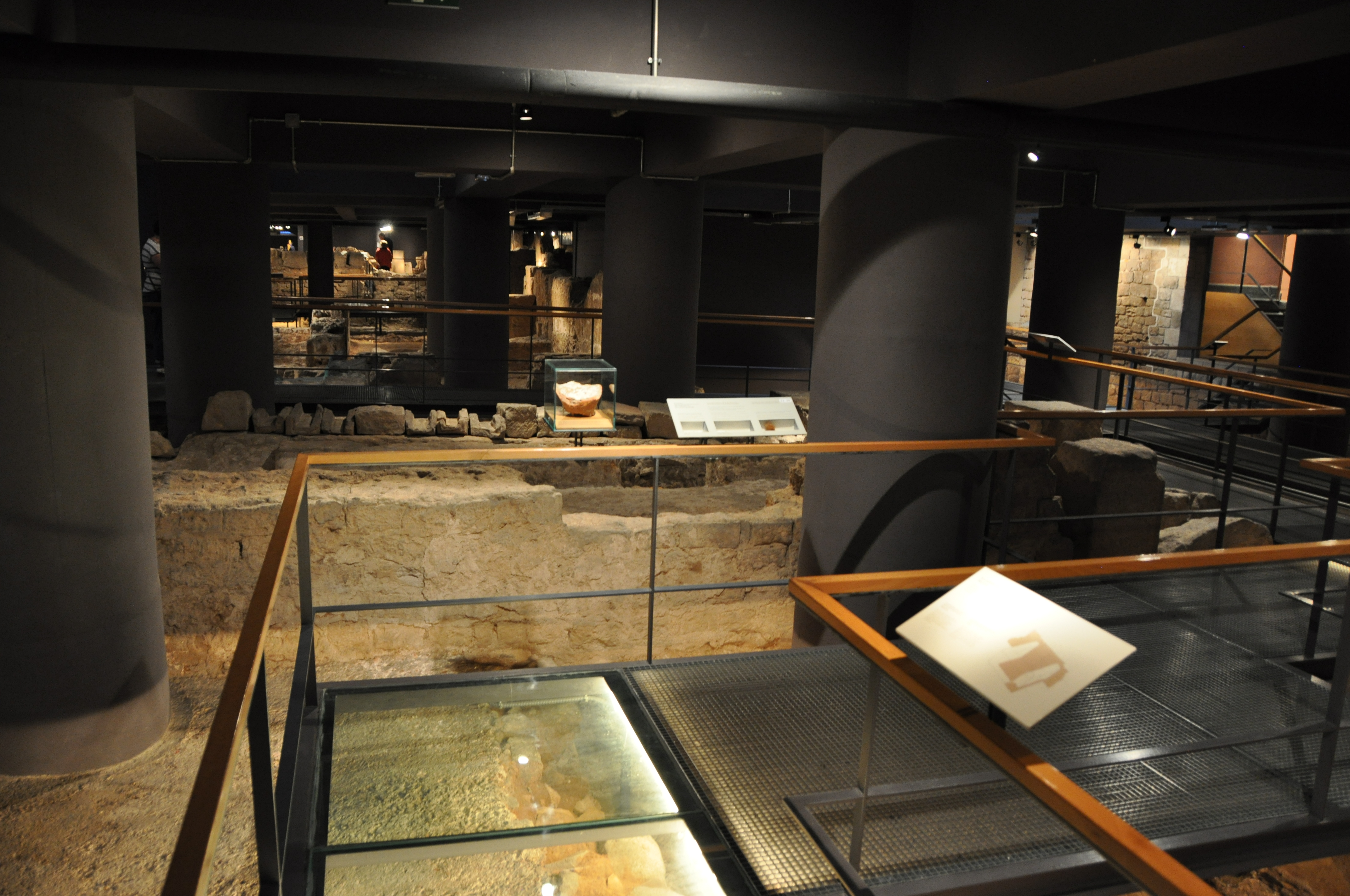 MUHBA Barcelona arcaeological underground roman laundry